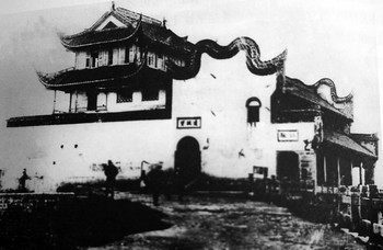 Tianxinge, Changsha, China, 1920s